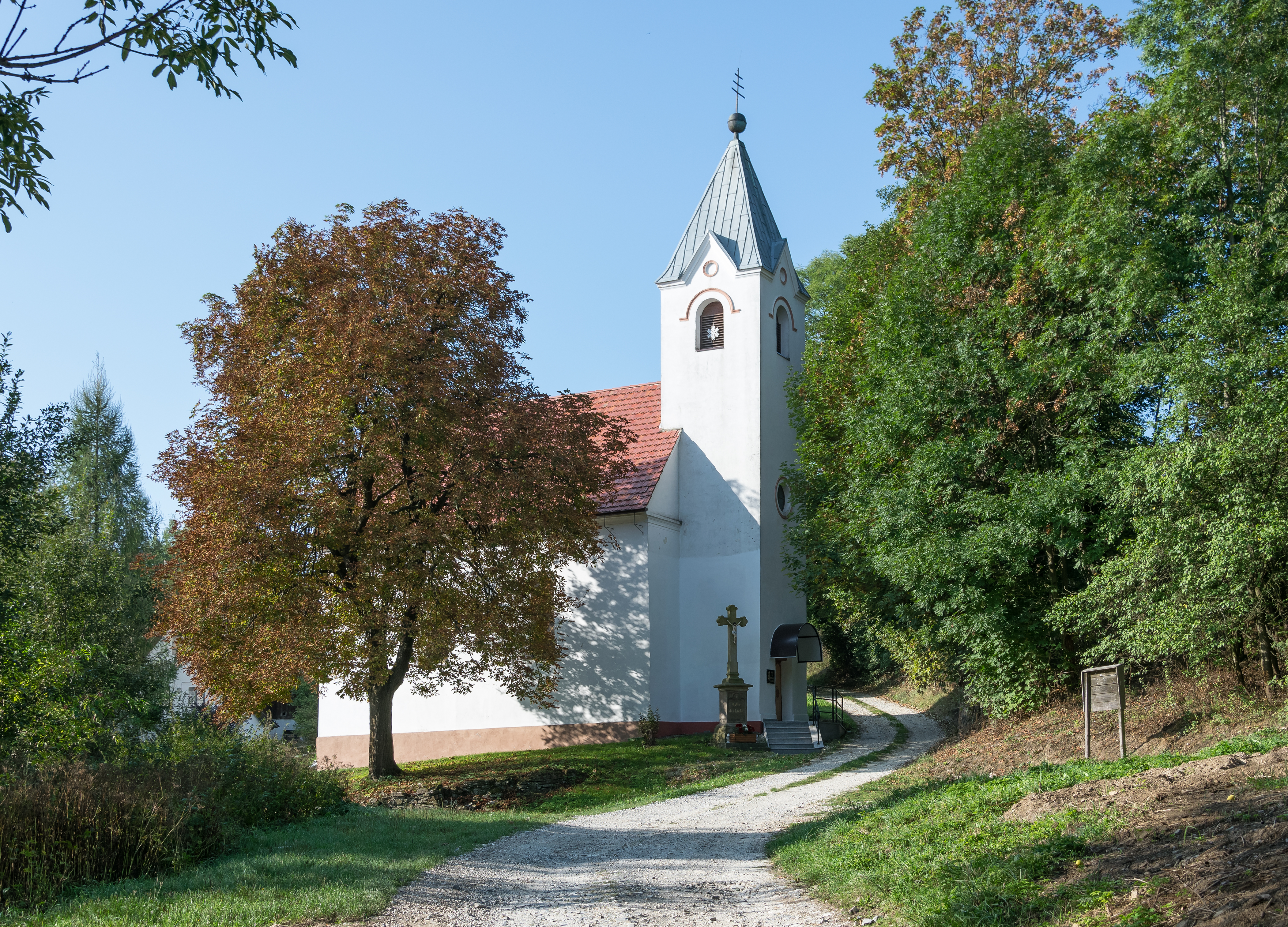 Holy Family church in Piotrowice Górne